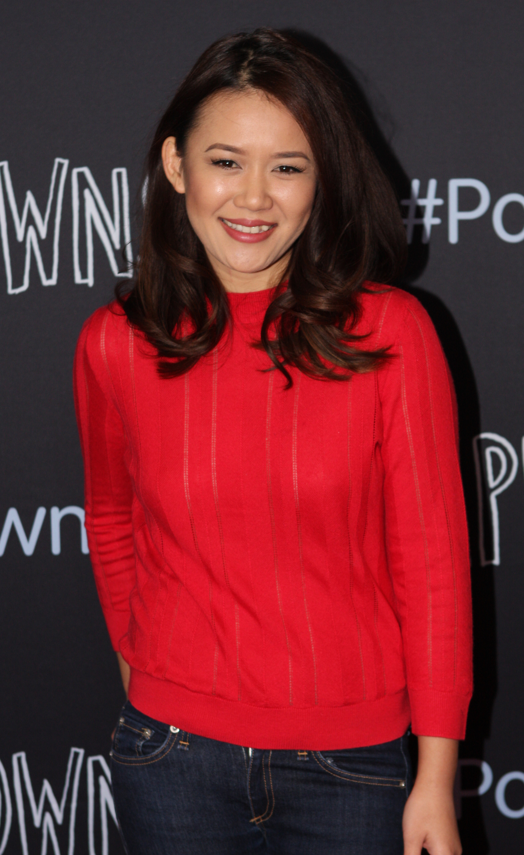 Natalie Tran at the Australian premiere of the adaptation of the John Green book, "Paper Towns".